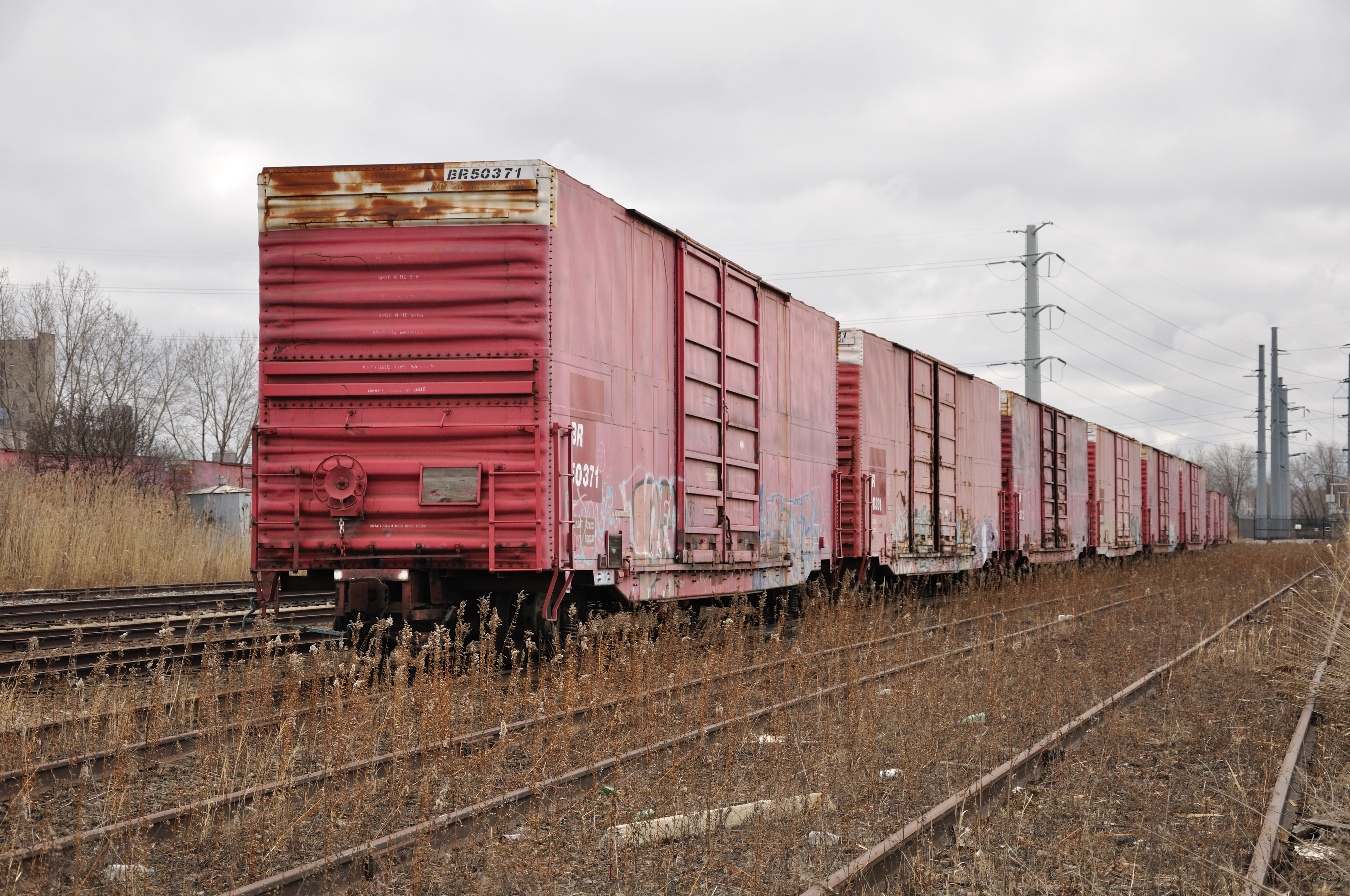 A string of six red boxcars on siding in South Deering, Chicago, IL, USA in 2010. The first car is BR50371.